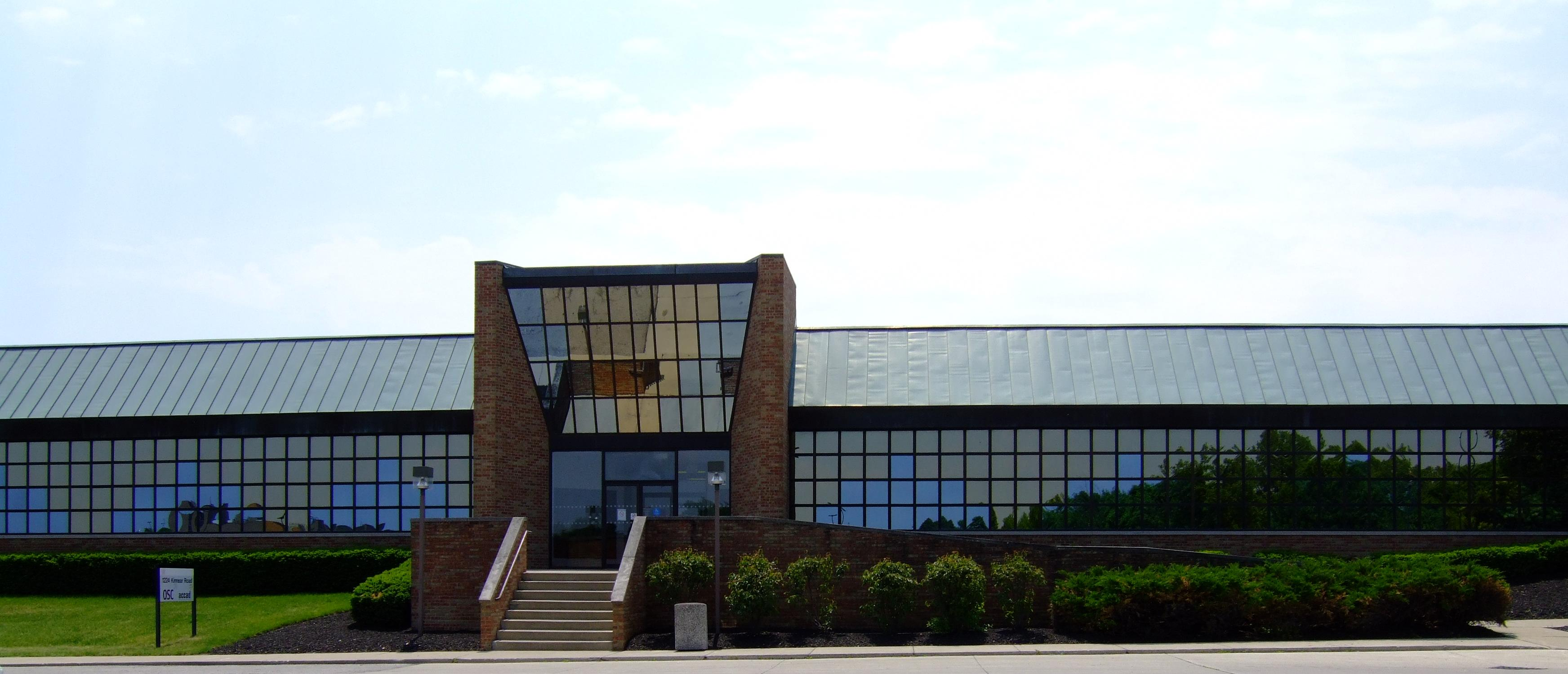 The Ohio Supercomputer Center on the campus of The Ohio State University in Columbus, Ohio, USA. Self made photo.